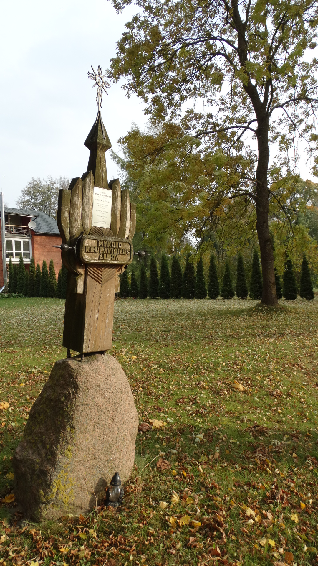 Sign of Krupavičius Alley in Balbieriškis, Prienai District, Lithuania